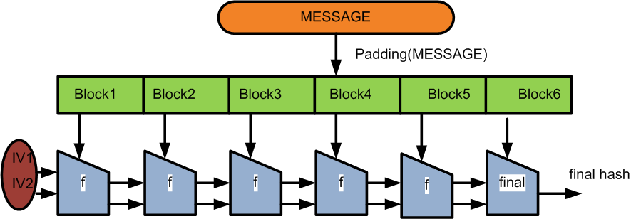 Wide pipe hash construction (one per column).